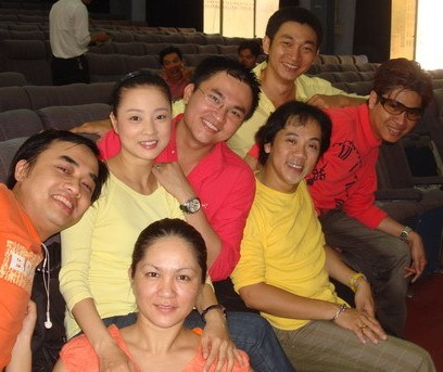 My picture